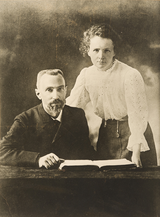 Pierre Curie (1859-1906) and Marie Sklodowska Curie (1867-1934) were jointly awarded the Nobel Prize for Physics in 1903 for discovery of the radioactive elements polonium and radium. Even today, the Curies provide inspiration for popular culture and textbook discussions of science. This photograph was circulated during the 1960s as publicity for an educational television program about the discovery of radium